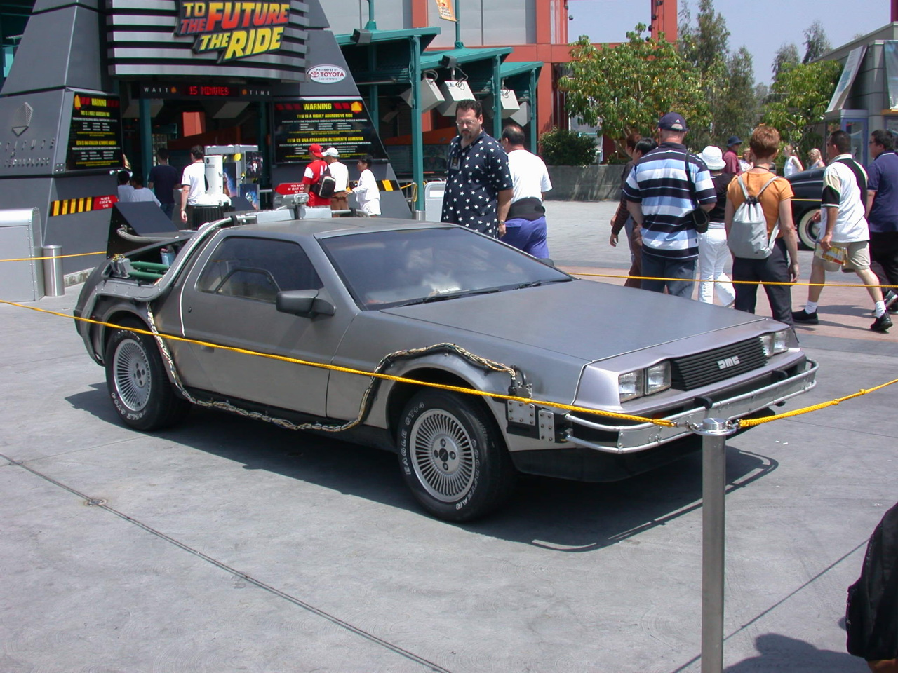 Back to the Future - The Ride at Universal Studios Hollywood